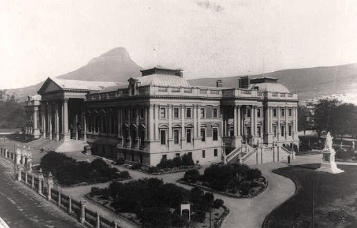 Reproduction of a photograph taken of the Cape Parliament soon after construction.